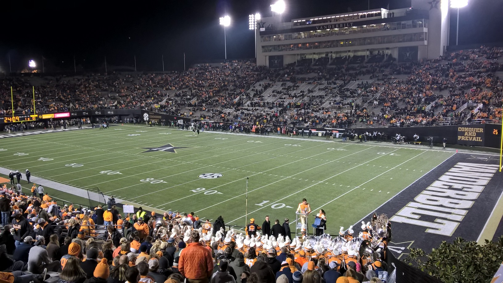 Vandy vs. Tennessee, 2016